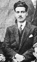 Notbale Iranian Press editors-in-chief, a grouph photograph taken circa 1929 by unknown author. Published in internet on [ Tarikhiranian.ir on Oct 3, 2012]